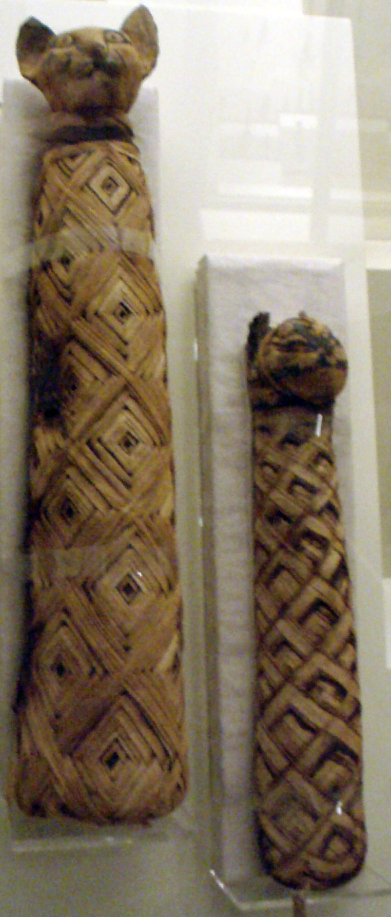 Two mummies of cats, from the Ancient Egyptian wing of the Royal Ontario Museum.